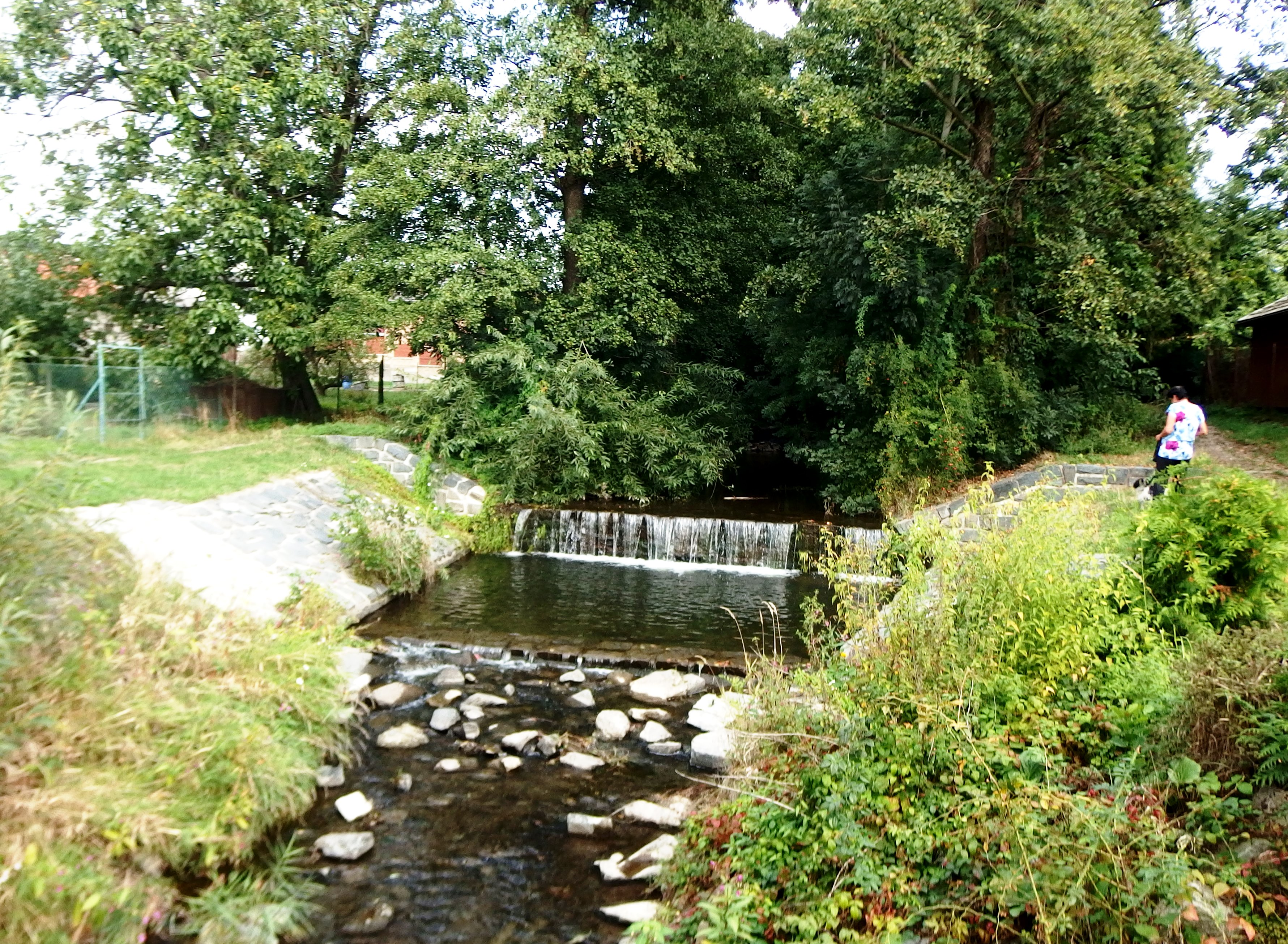 Bělkovice-Lašťany, Olomouc District, Czech Republic.